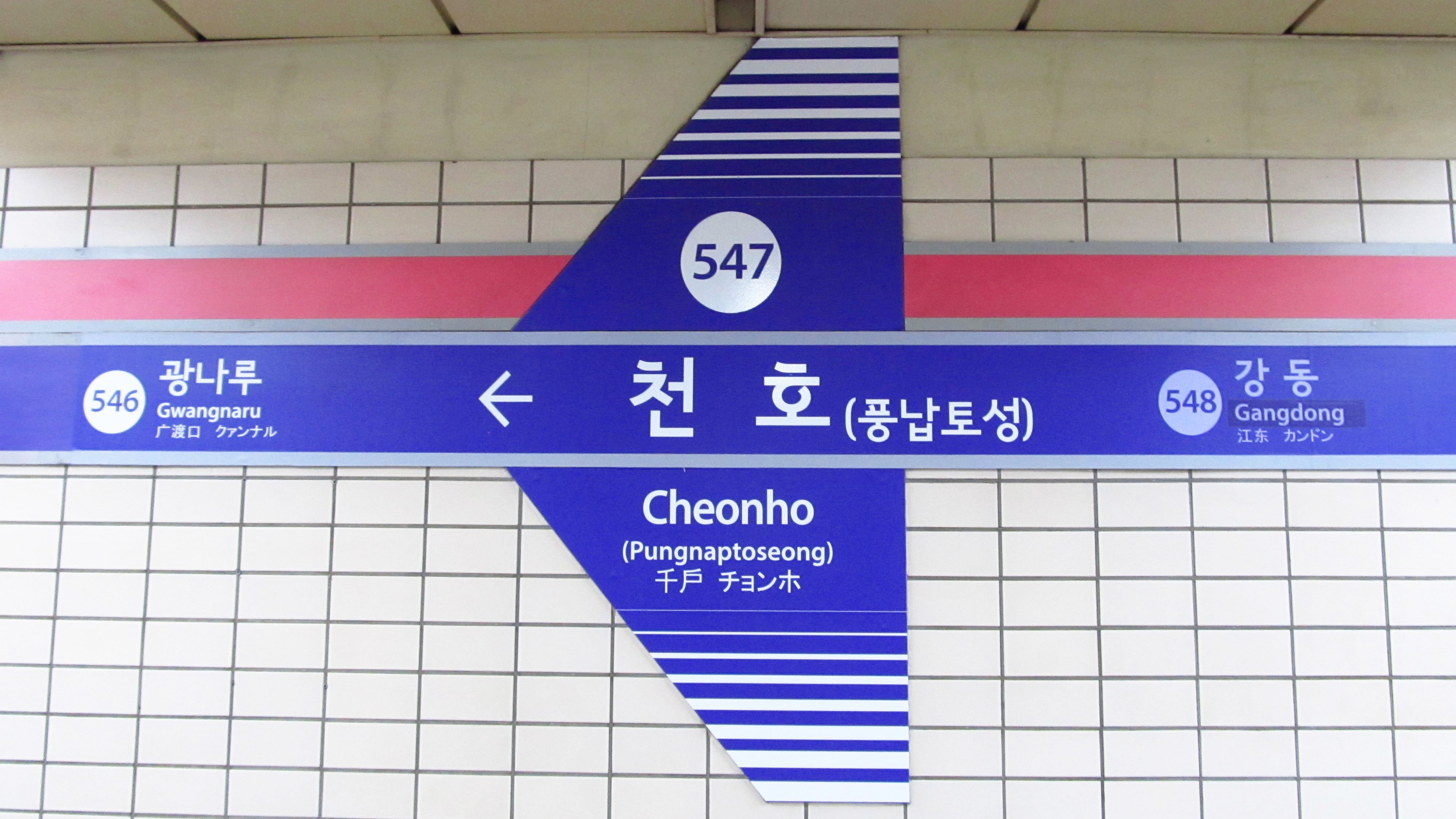 A sign of Cheonho Station on Seoul Subway Line 5